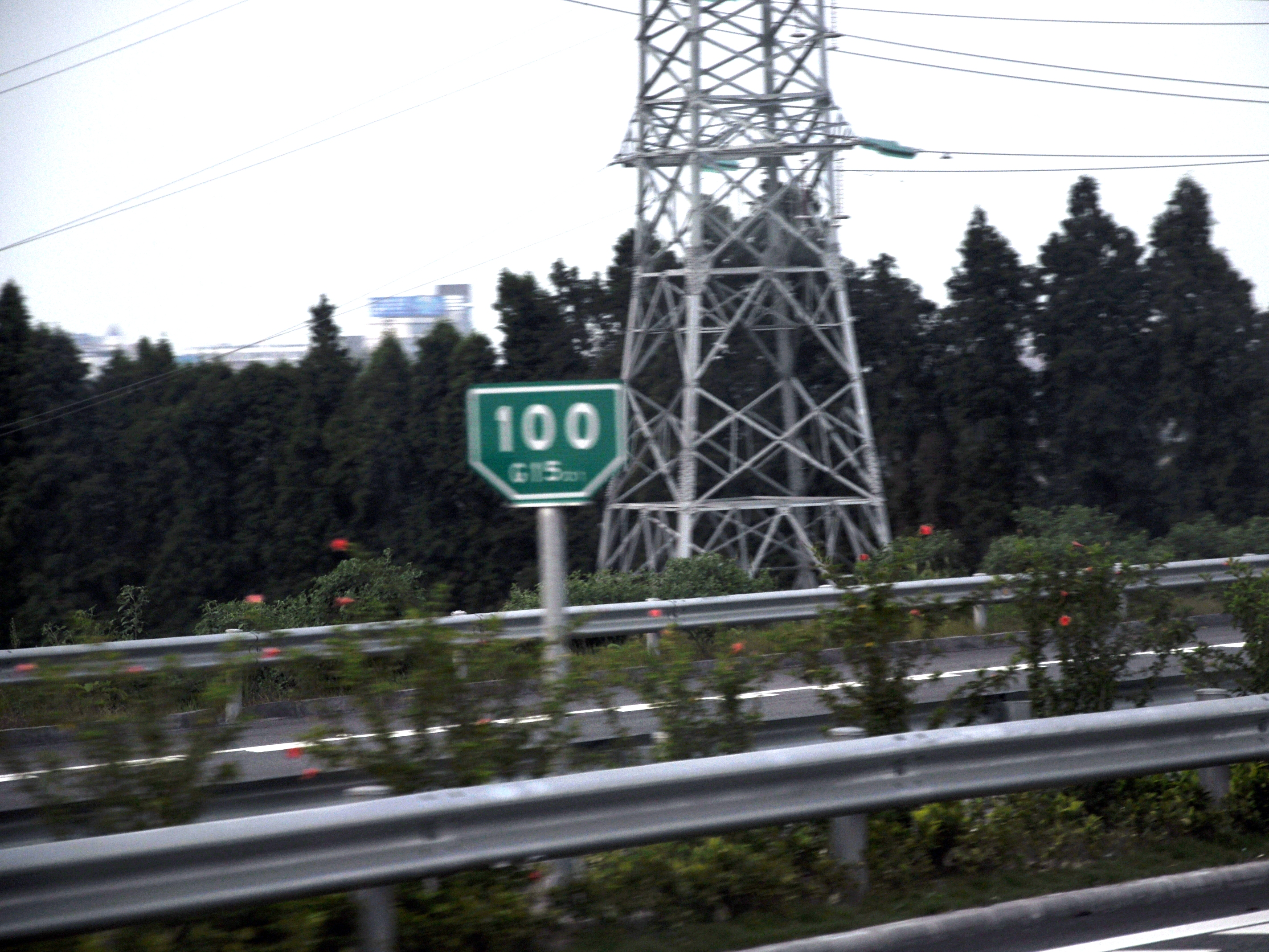 The 100KM milestone in G1501 Guangzhou round expressway.